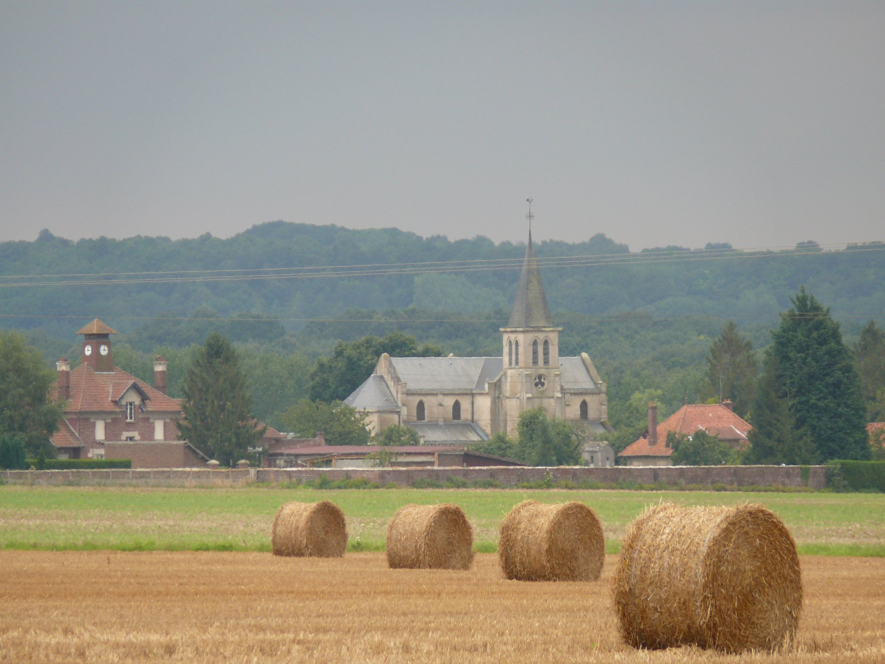 Saint-Peter's church of Champs (Aisne, Picardie, France).